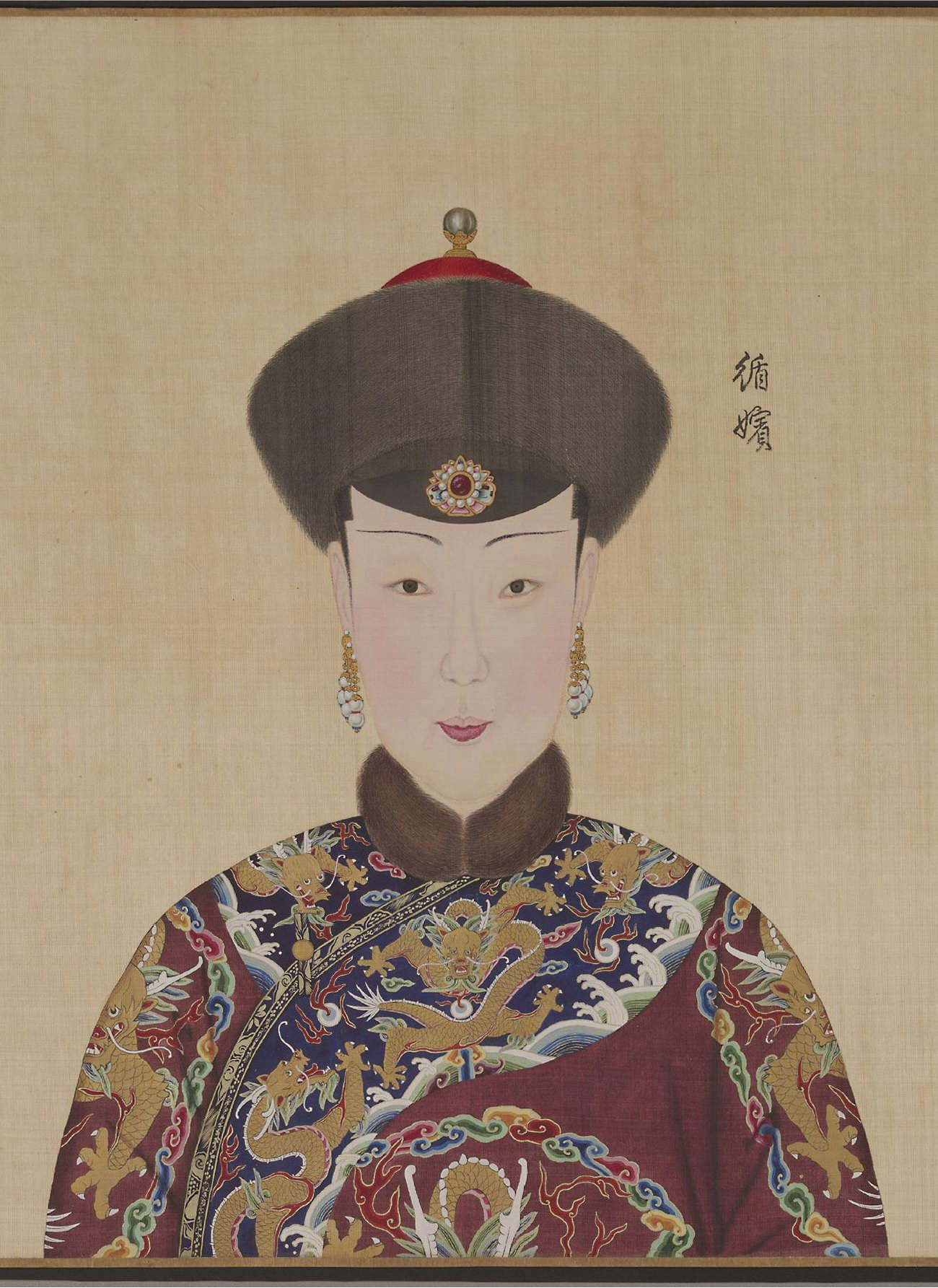 Part of the painting Qianlong Emperor and His Consorts, features the Consort Xun (循嫔) of Qianlong Emperor.